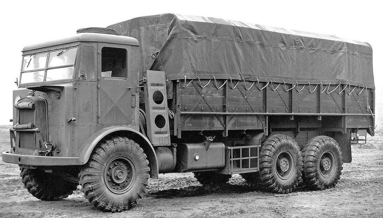 Leyland Hippo Mk II - 6x4 - 10 ton - closed cab - 1944